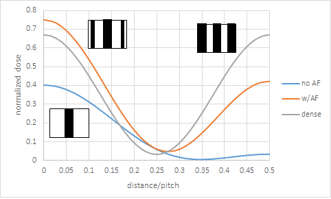 The use of an assist feature matches an isolated feature aerial image better to that of a dense feature, but the risk of printing the assist feature needs to be considered. The inset figures are next to their respective aerial images.